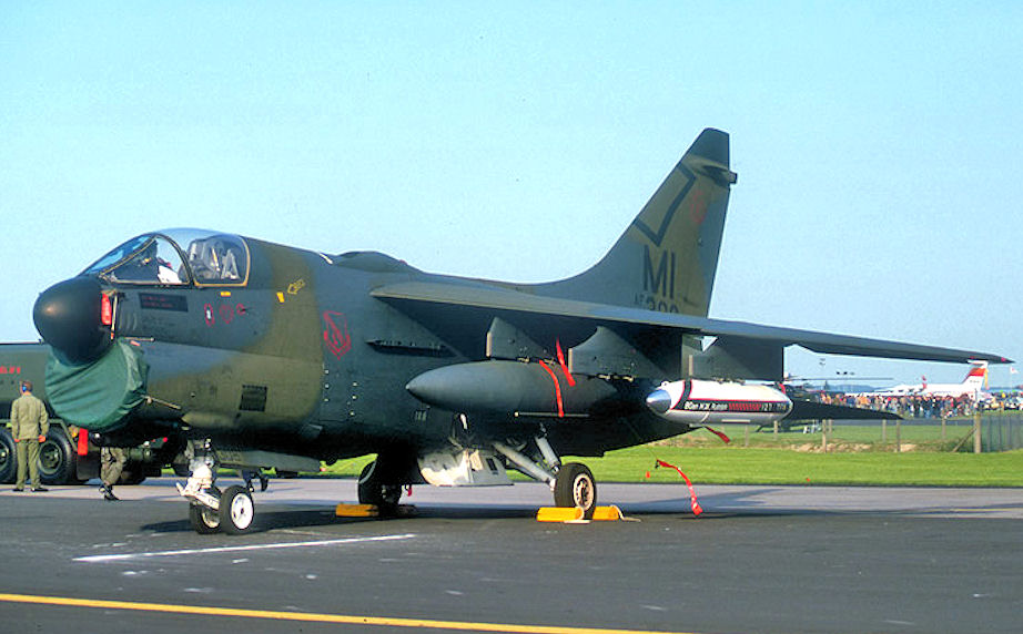 107th Tactical Fighter Squadron A-7D 71-0308 Michigan ANG Aircraft History 1972: Aircraft delivered to 354th Tactical Fighter Wing/353d TFS, Myrtle Beach AFB, SC (C/N D-219) Deployed to Korat Royal Thai AFB, Thailand, October 1972; Transferred to 388th Tactical Fighter Wing/3d TFS, March 1973 Transferred to 23d Tactical Fighter Wing/75th TFS, December 1975 Transferred to 107th Tactial Fighter Squadron, Michigan Air National Guard, 1982 Retired to AMARC as AE0191 Aug 3, 1992 Sold for reclamation, April 1997